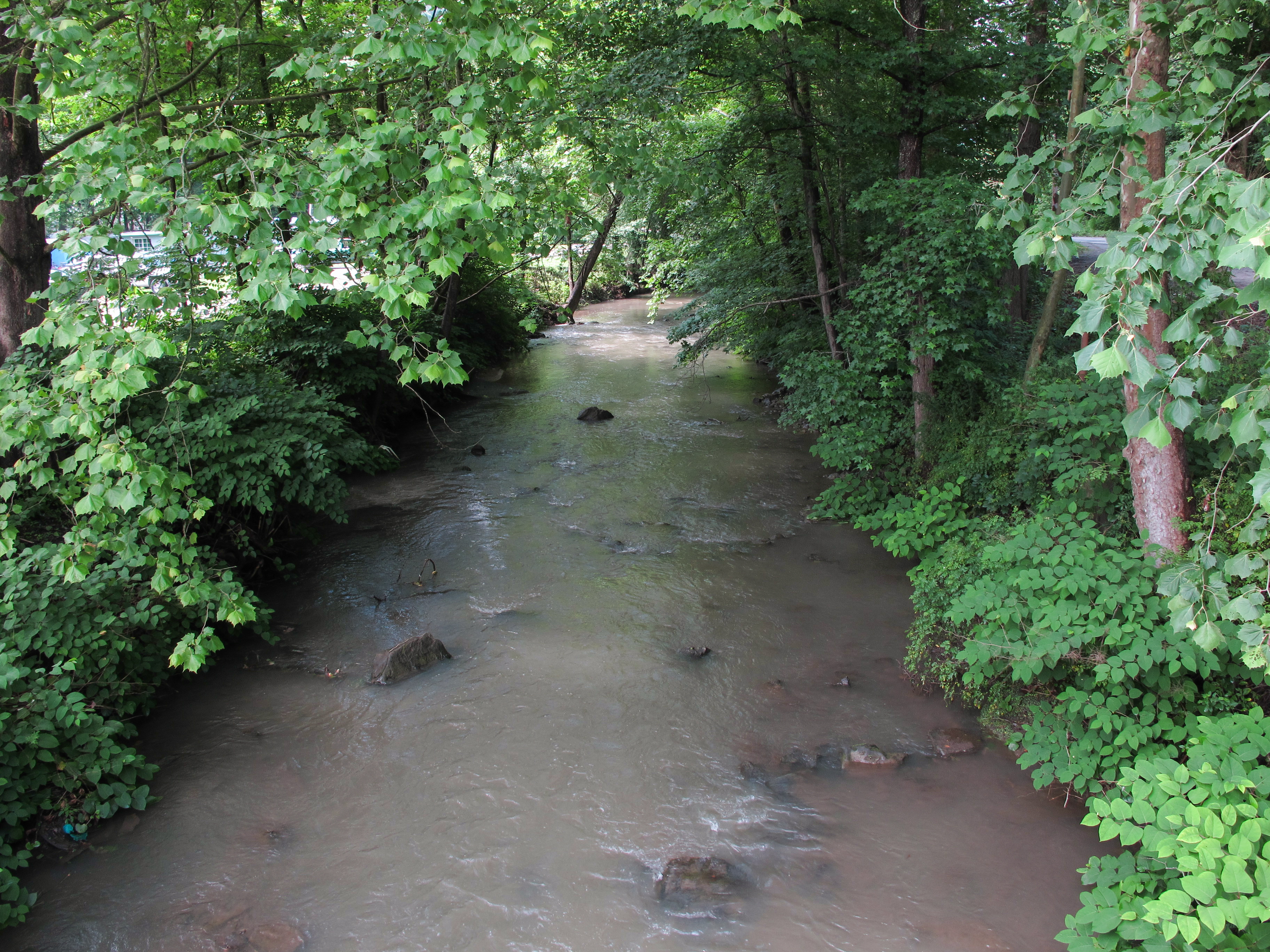 Kellys Creek near Cedar Grove, West Virginia, as viewed downstream from a bridge connecting Kellys Creek Road (County Road 81) and Big Mountain Road.